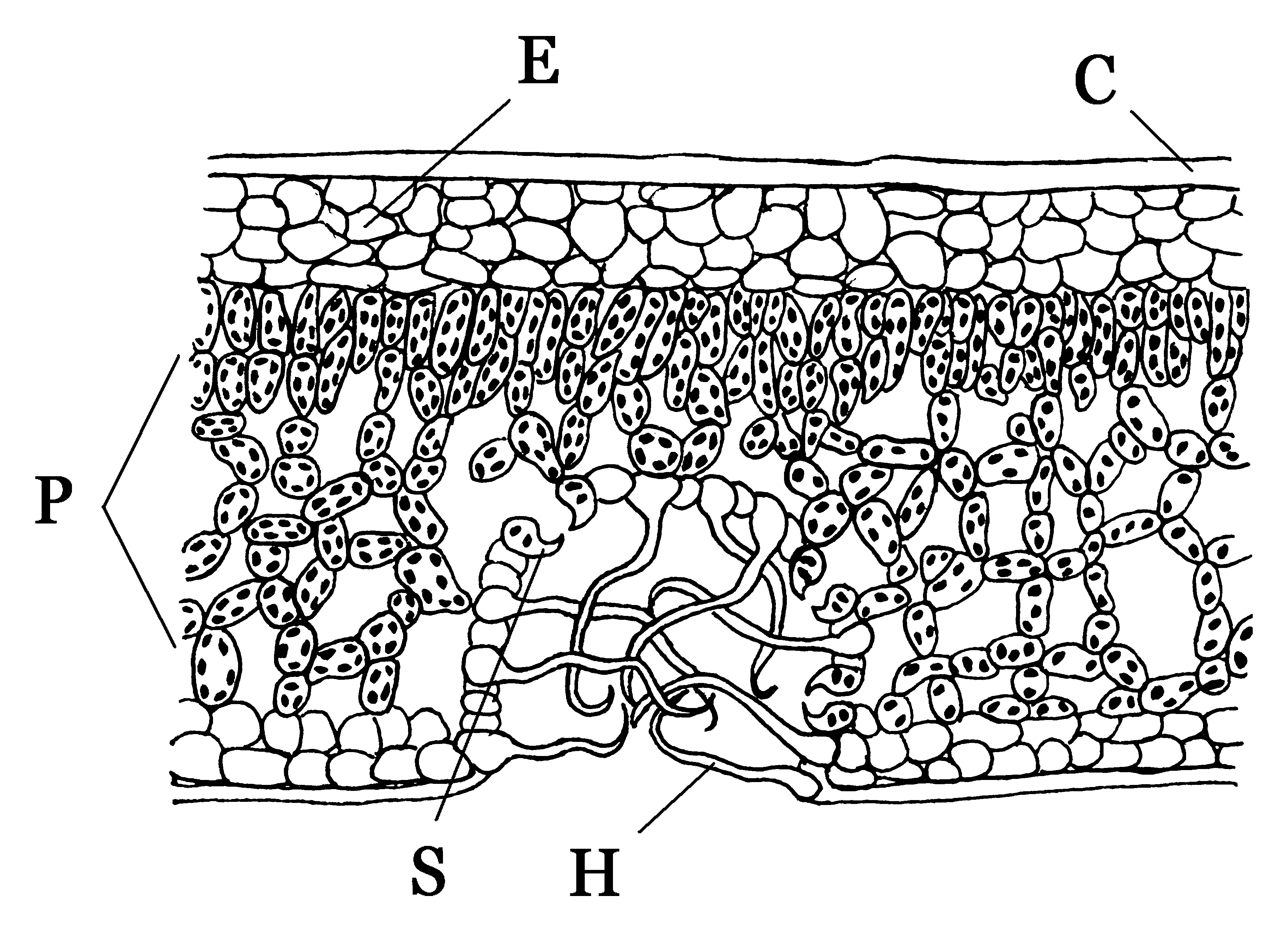 Cross section through a xerophyte leave / Querschnitt durch ein Xerophyten-Blatt. Key / Legende: C - thick cuticula / dicke Cuticula E - multi-layered epidermis / mehrschichtige Epidermis H - dead, epidermal hairs / tote, epidermale Blatthaare P - multi-layered palisade and spongy parenchyma / mehrschichtige Palisaden- und Schwammgewebe S - internal stomata / eingesenkte Spaltöffnungen